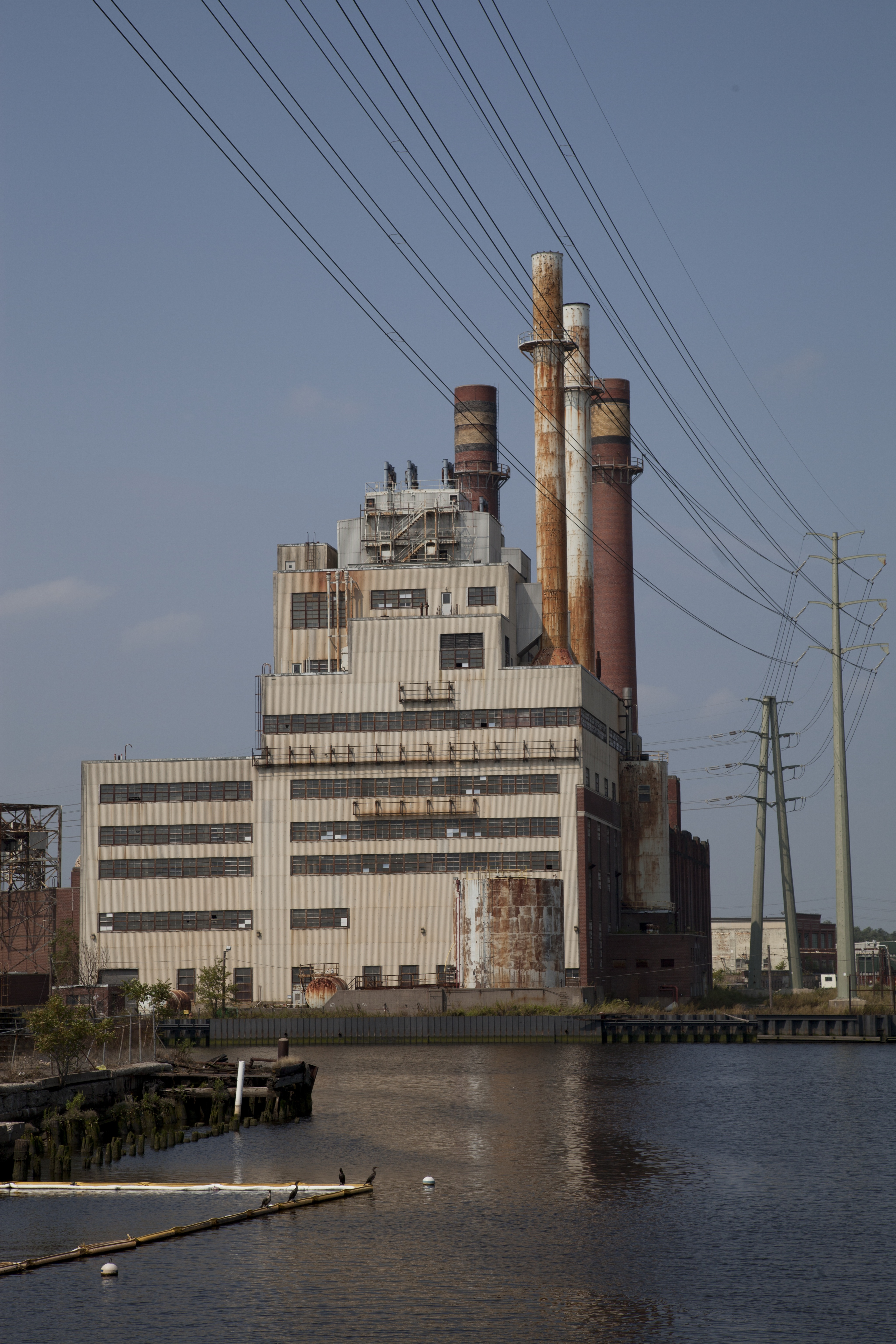 English Station power plant from Chapel Street draw bridge, New Haven, CT